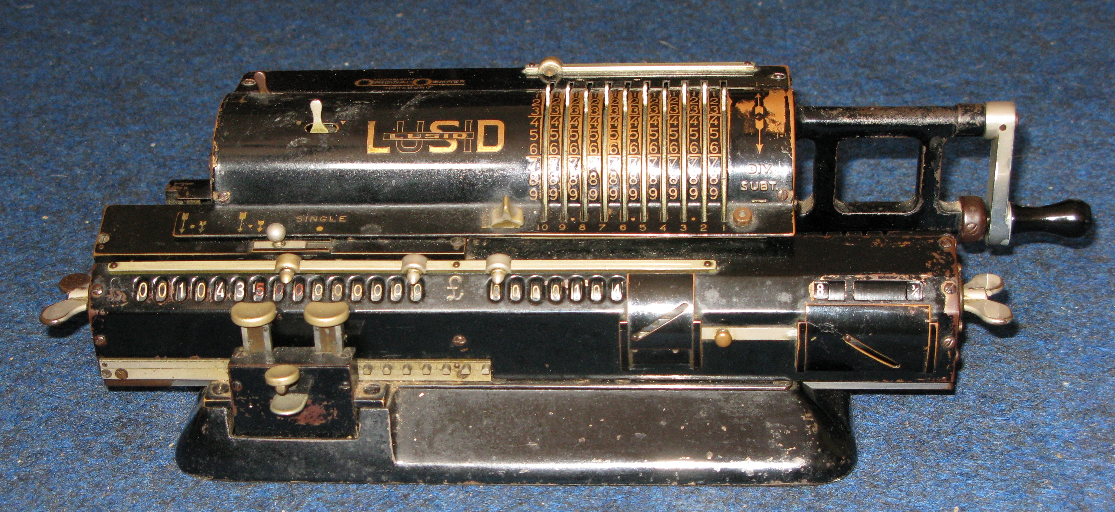 Photo of a Original-Odhner LUSID pinwheel mechanical calculator. Somewhat unusal in that it could work with the pound shillings and pence of britian's pre decimalised currency.